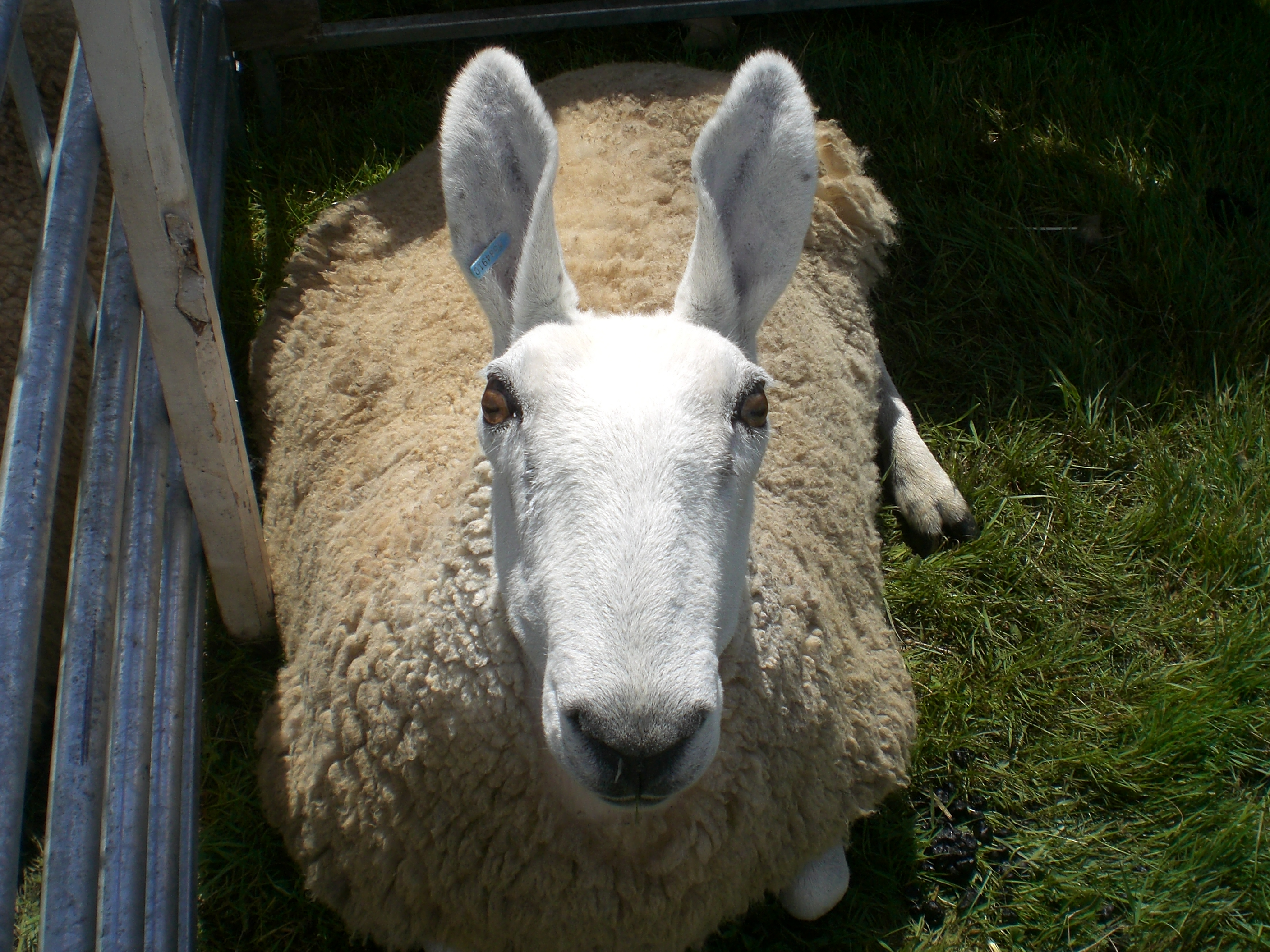 Border Leicester sheep in Scotland